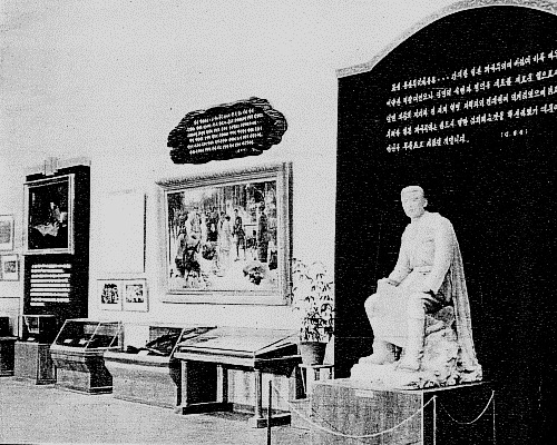 Korean Revolution Museum interior circa 1960